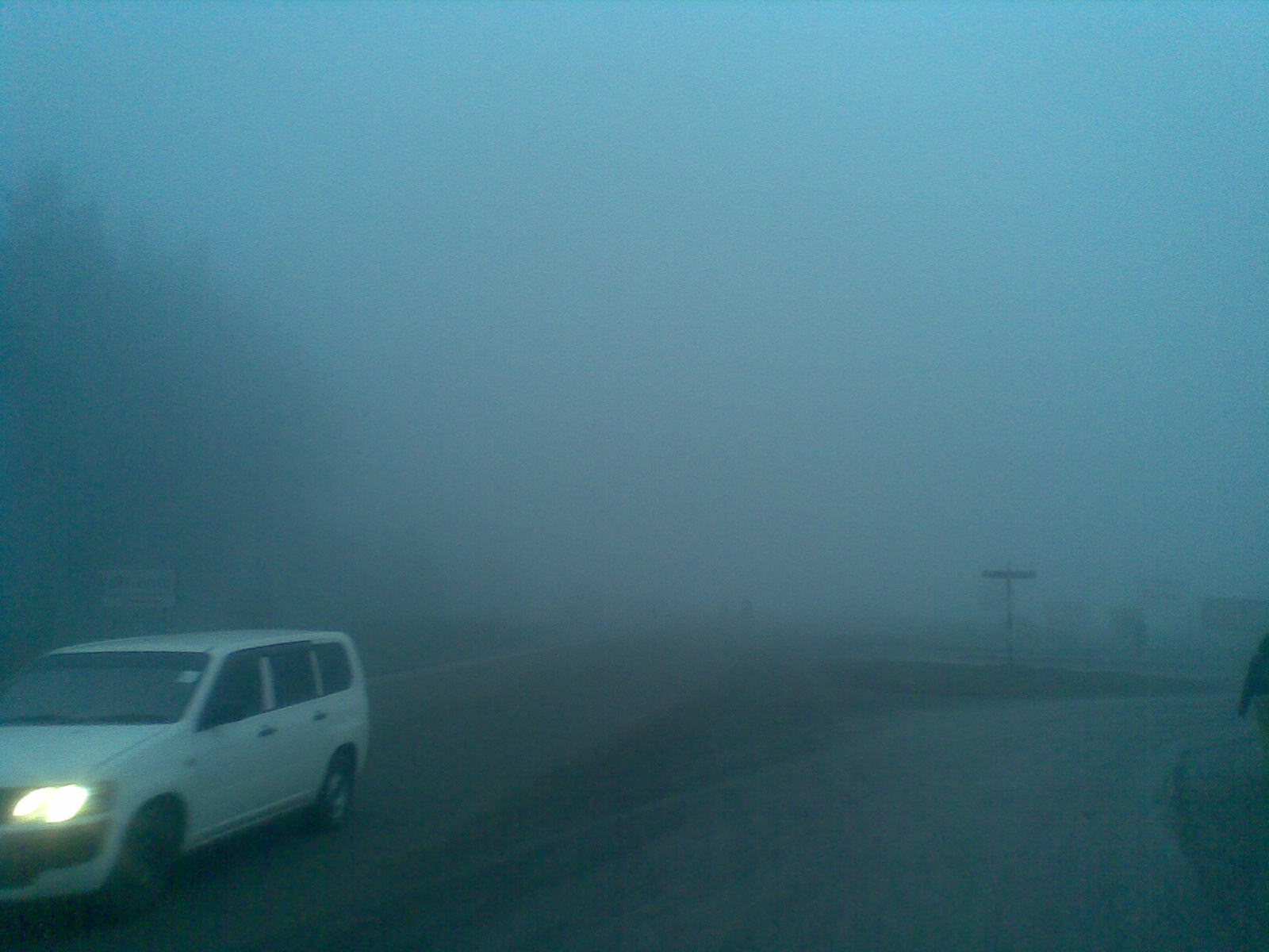 A vehicle on Nairobi - Nakuru highway at Uplands Section. Lari is at times extremely cold. Sometimes visibility may go down to 10meters.